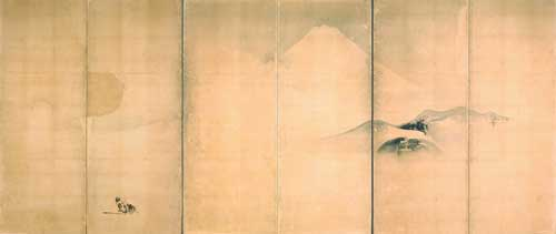 Byobu folding folding screen painting by the Japanese painter Kanō Naonobu (1607–1650) of the Kanō school of painting.